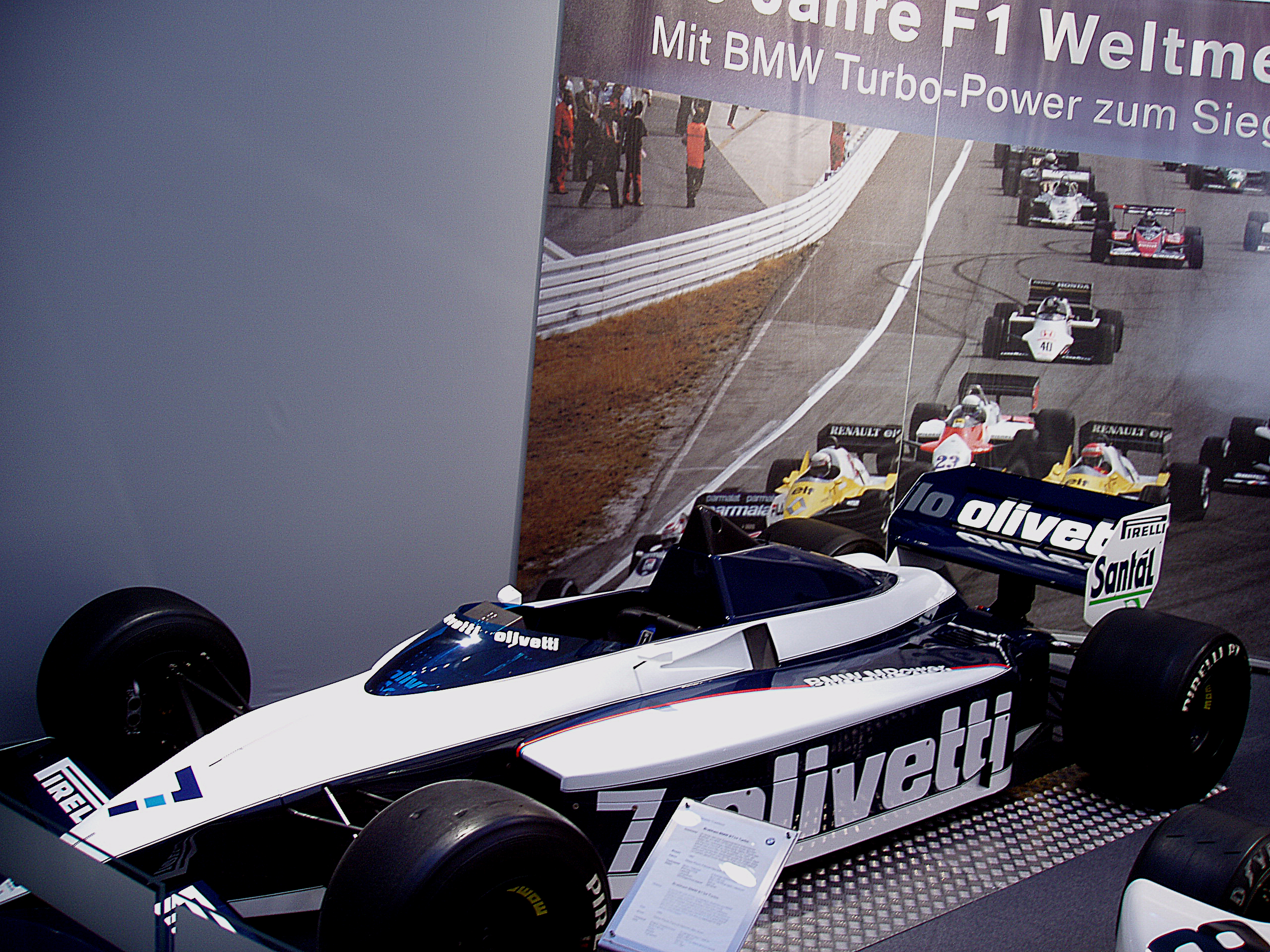 at the BMW museum, Munich.